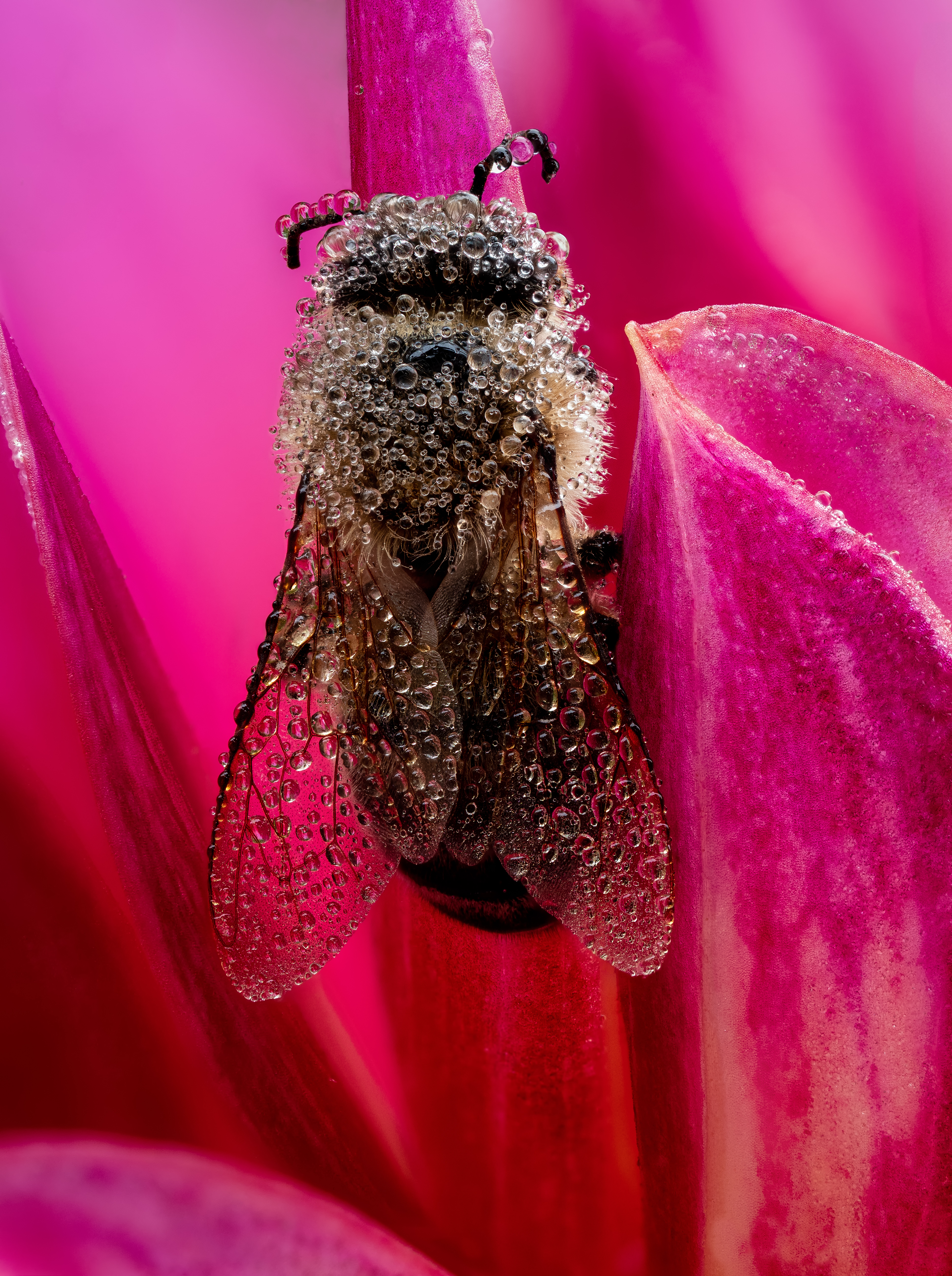 Honeybee with dew drops on the flower of a zinnia. Focus stack of 14 frames.